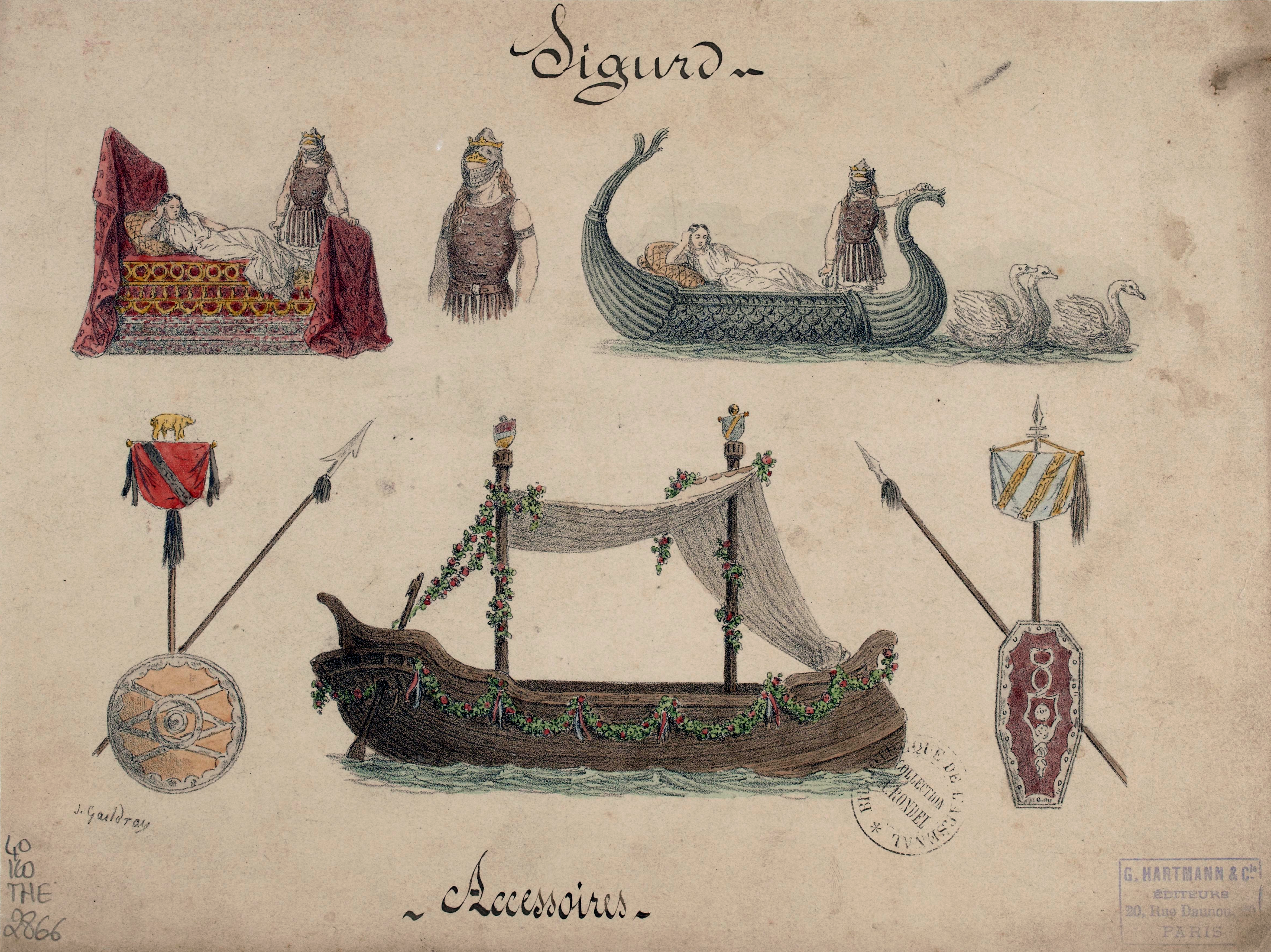 Ernest Reyer - Sigurd - Paris, Opéra, 12-06-1885 - 4 - accessories